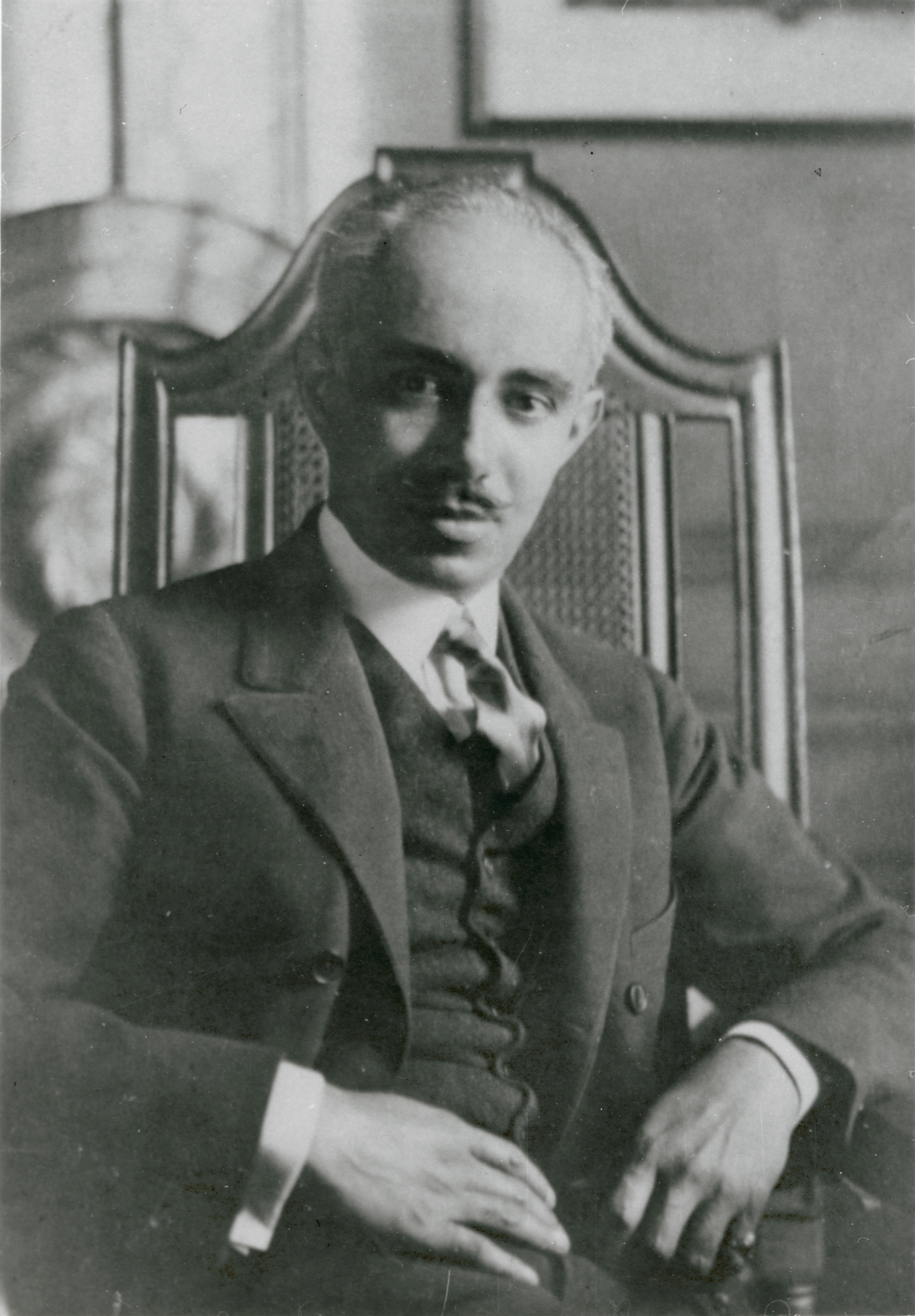 Julian Abele (1881-1950), photograph